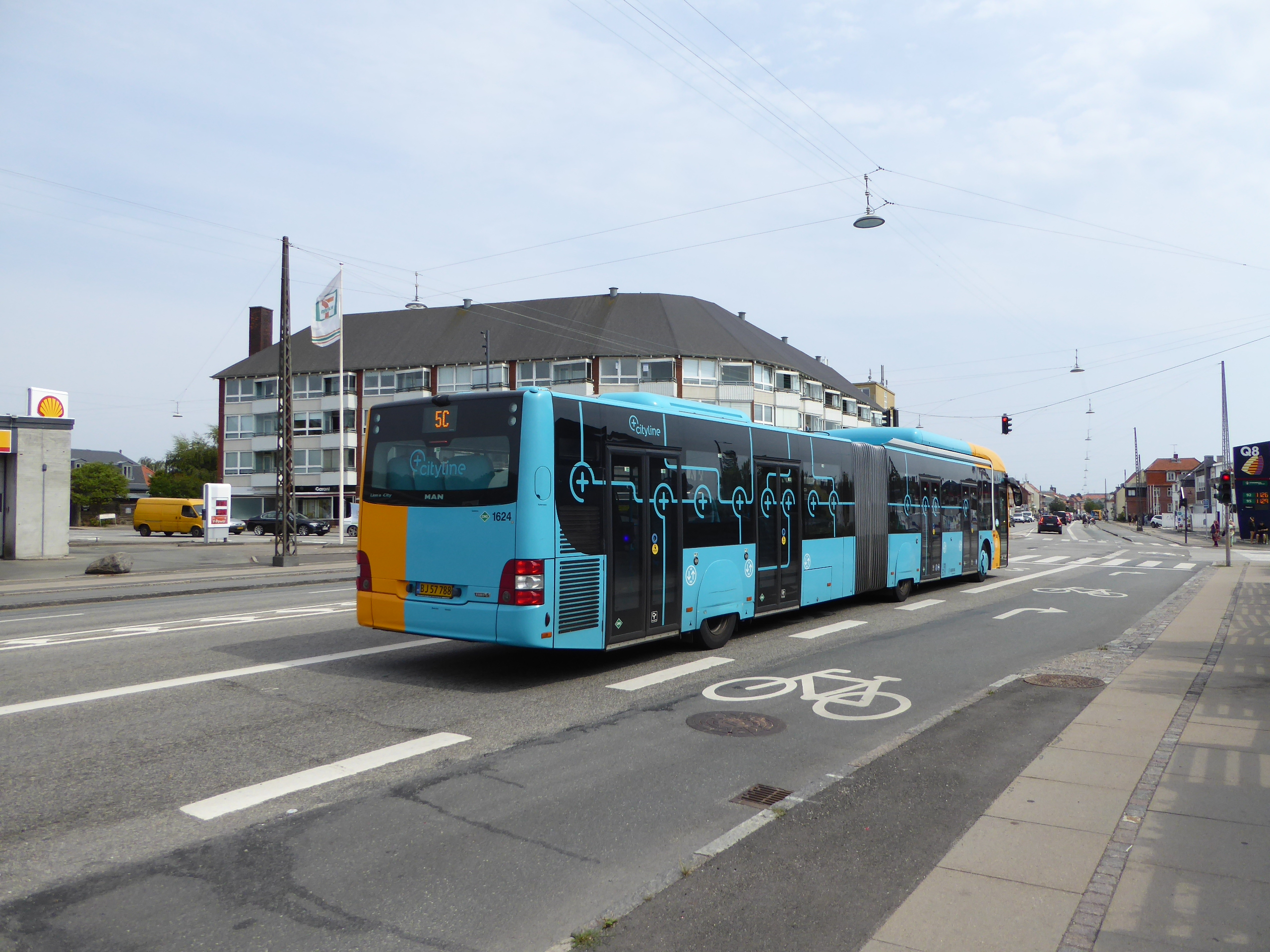 Movia bus line 5C on Frederikssundsvej at Mørkhøjvej in Husum in Copenhagen.